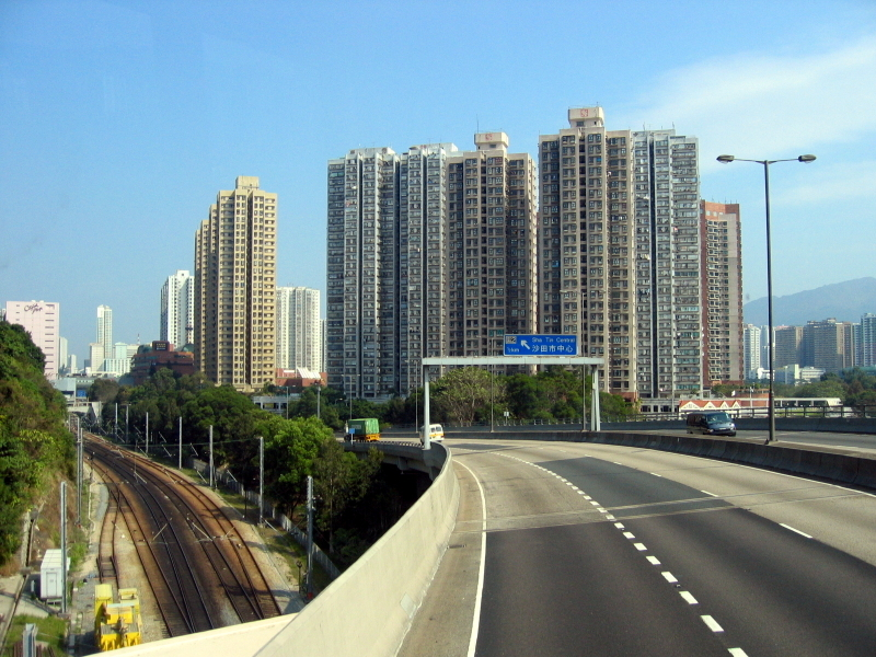 Shatin Central View